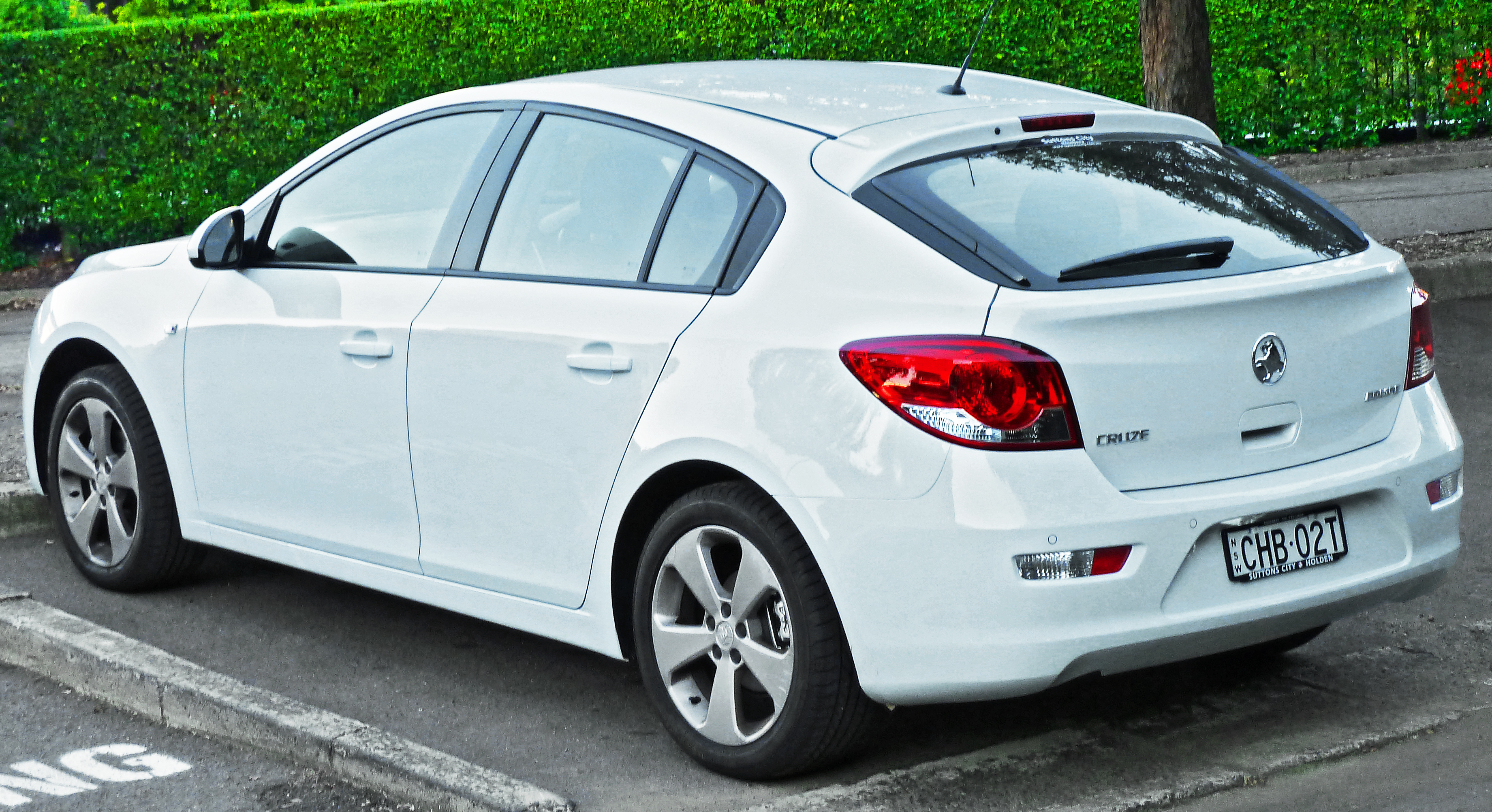 2012 Holden Cruze (JH II) Equipe hatchback. Photographed in Camperdown, New South Wales, Australia.